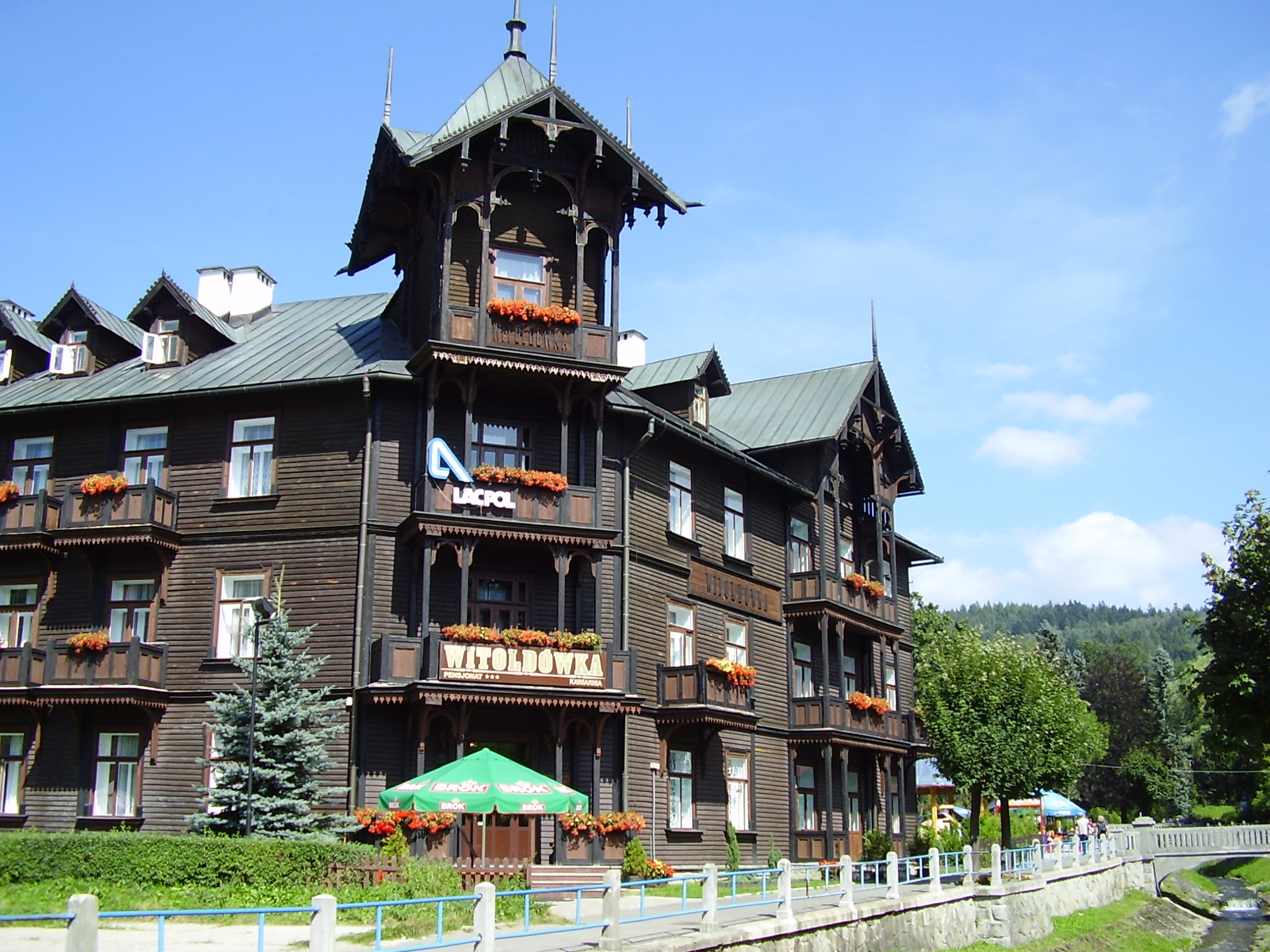 The "Witoldowka" hotel in Krynica-Zdrój, Poland